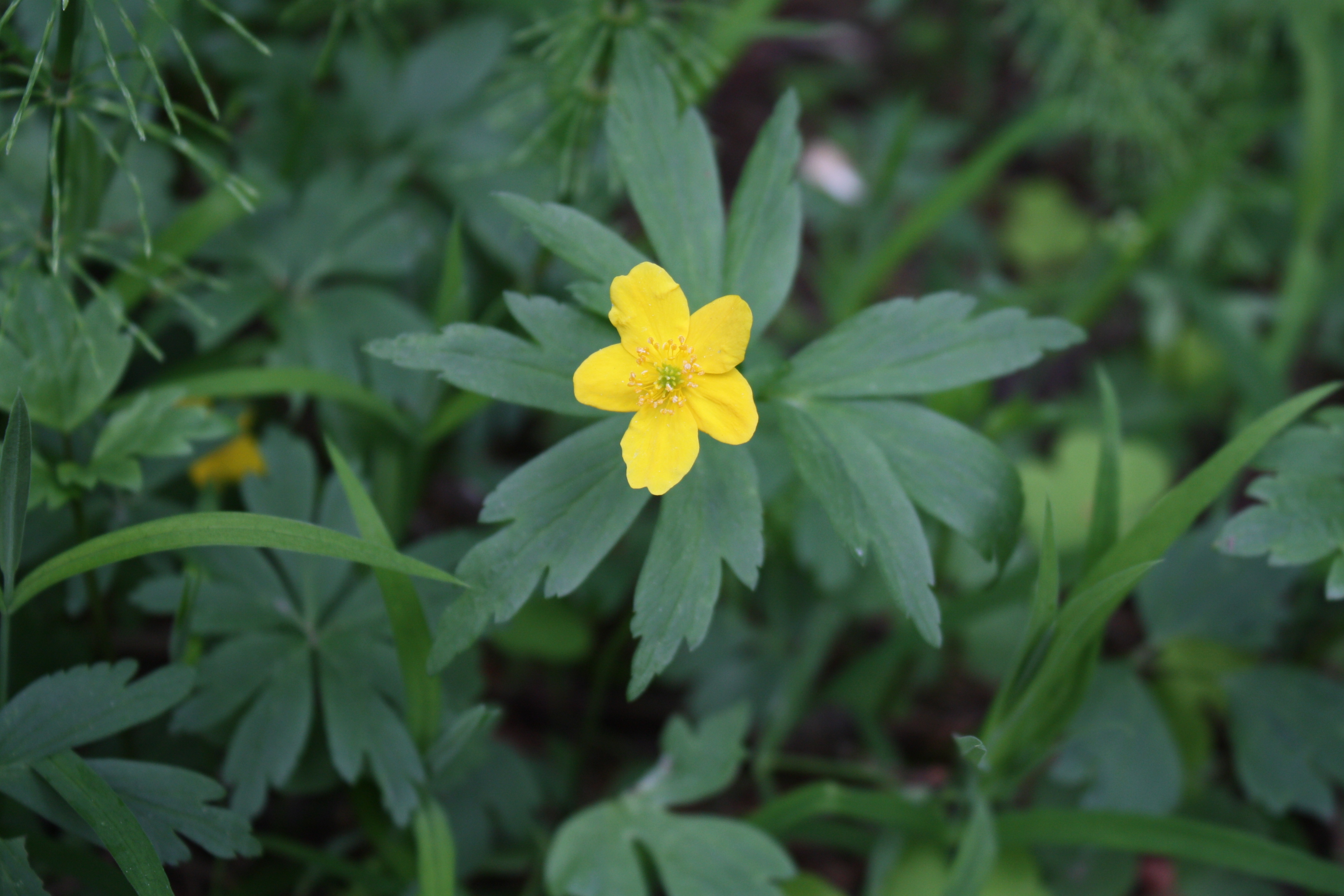 Anemone ranunculoides in Lemmenlaakso Nature Reserve, Järvenpää, Finland